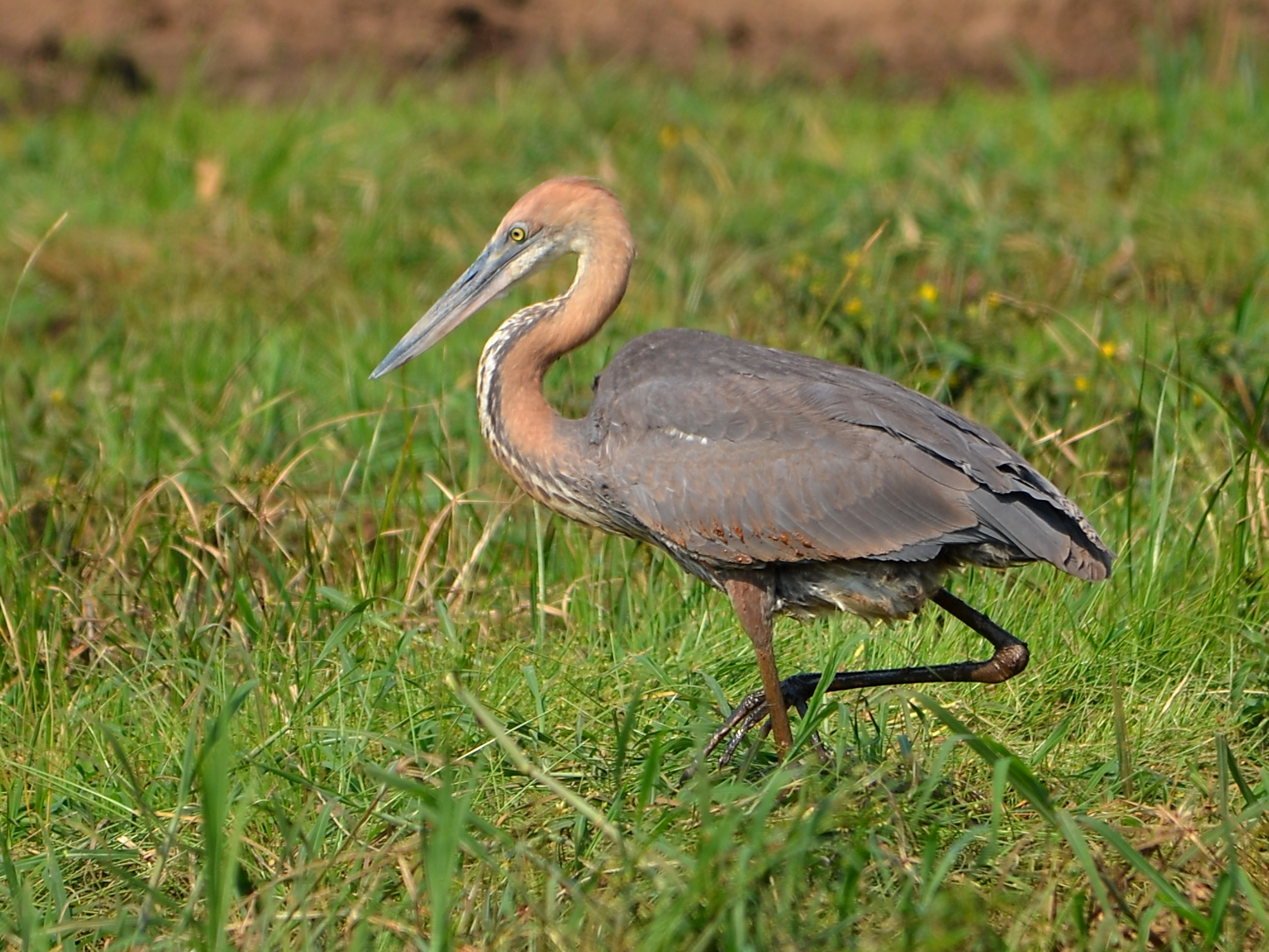 Goliath Heron near Nsefu, Zambia.